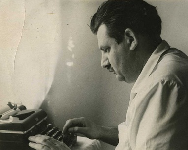 Aronov at the typewriter